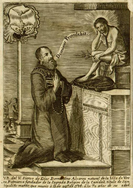 Fray Bernardino Álvarez, founder of Hospital de S. Hipólito at Mexico, from Libro de la vida del proximo evangelico el venerable padre Bernardino Alvarez. por Juan Díaz de Arce (México : Impr. Nueva Antuerpiana, 1762)